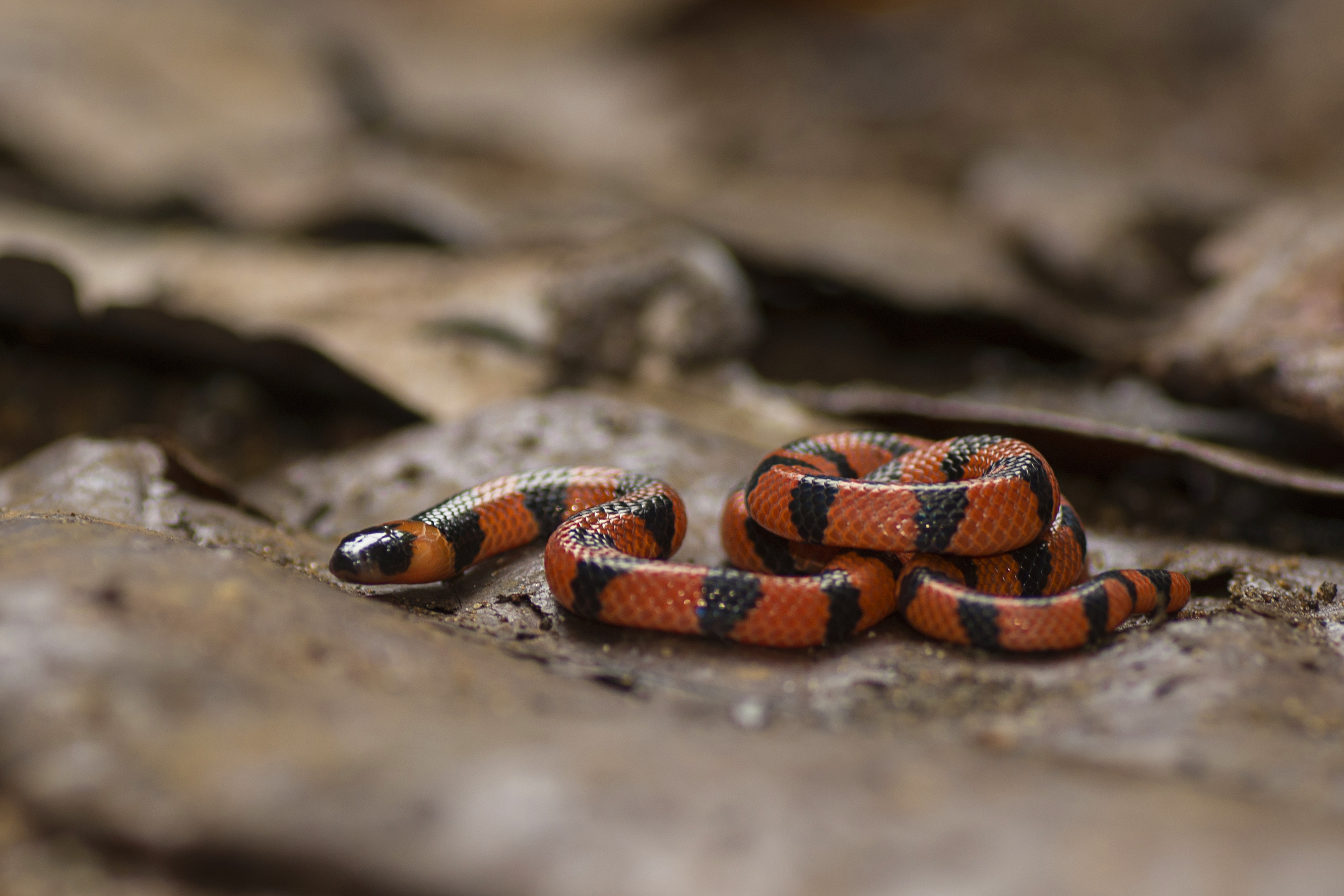 Image taken at Coorg in Karnataka state of Western Ghats of India